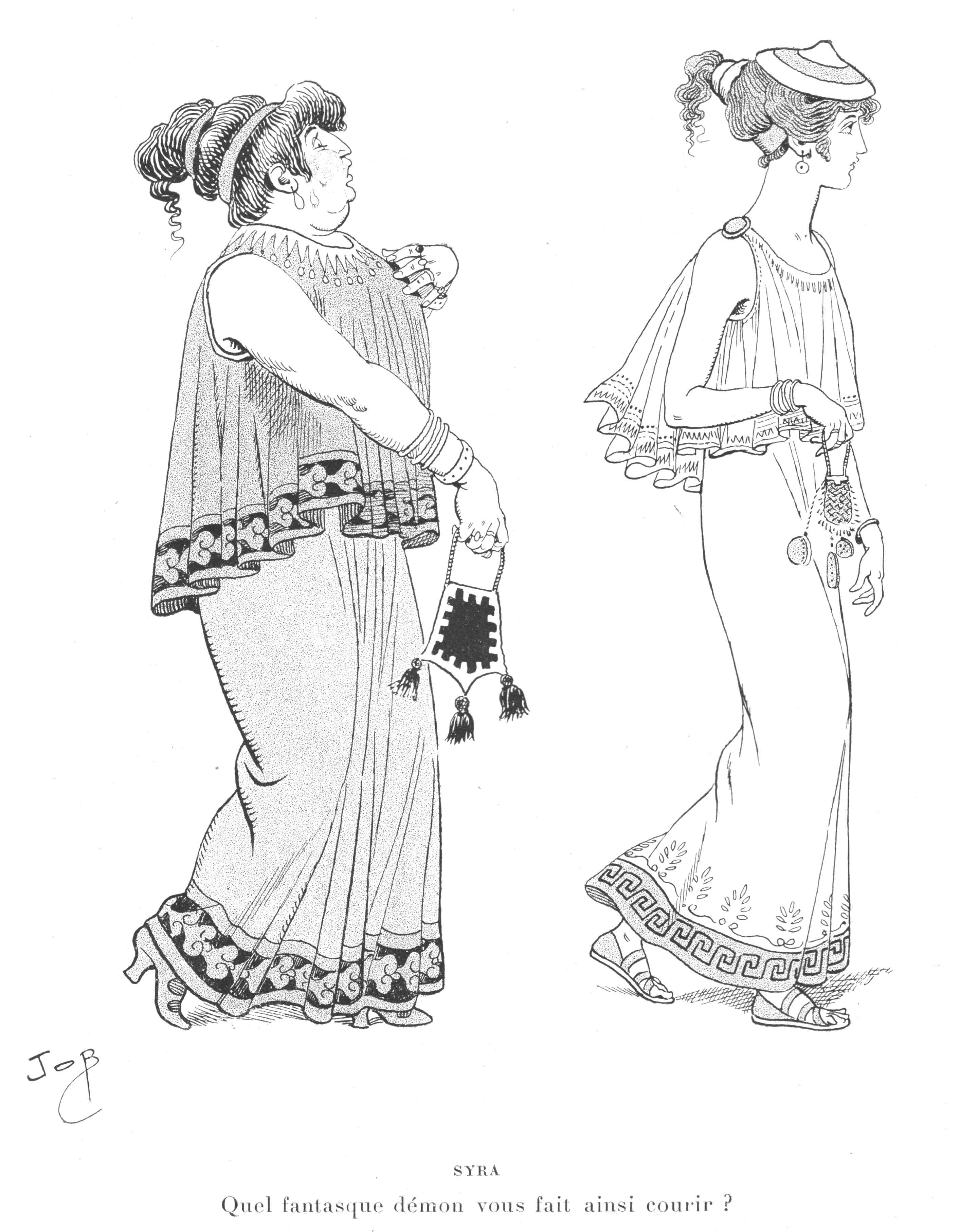 Stout woman and slim woman in pseudo-ancient-Greek clothing styles